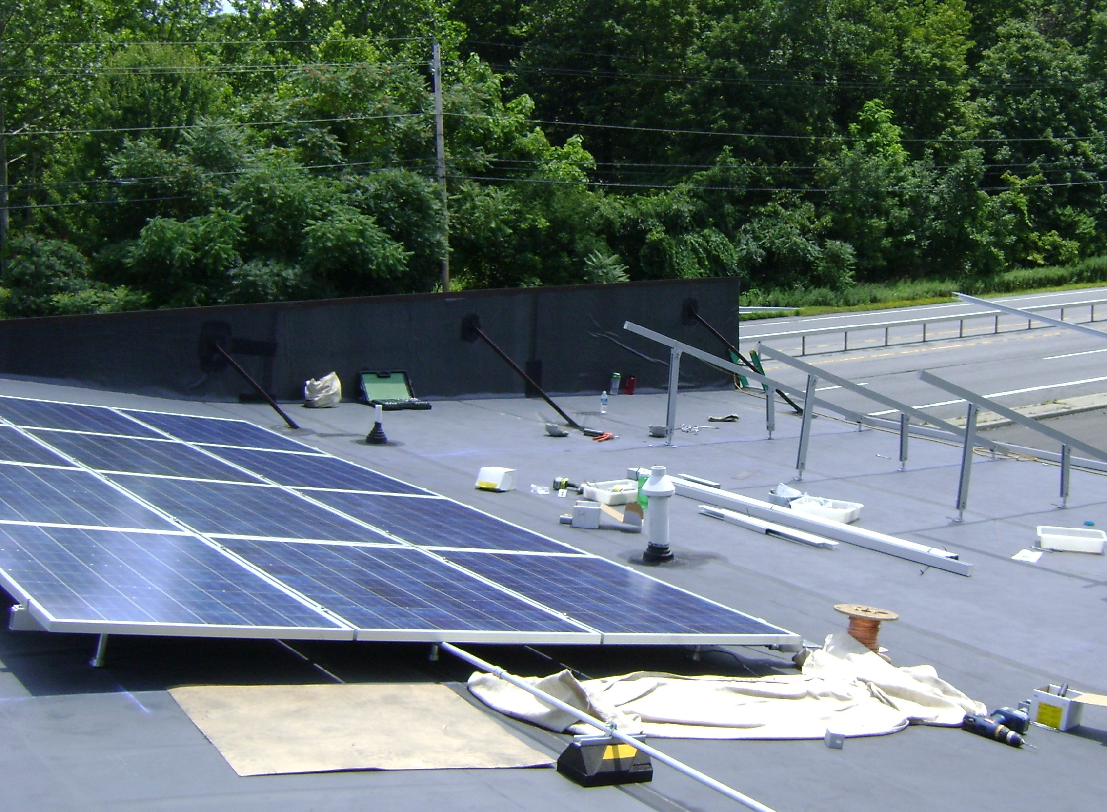 A photovoltaic system on a roof near Poughkeepsie, New York.